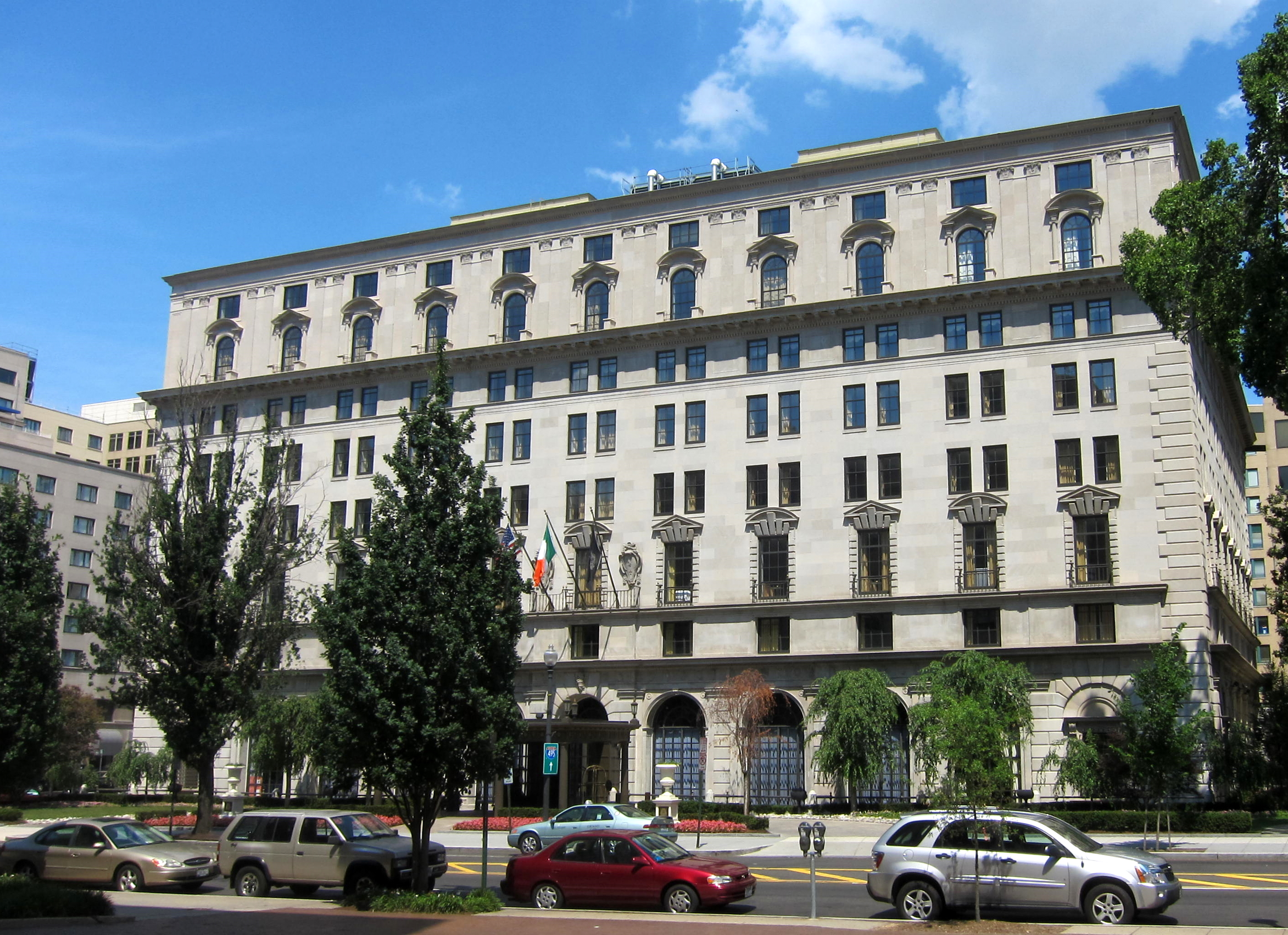 The St. Regis Washington, D.C., originally known as the Carlton Hotel, located at 923 16th Street, N.W., two blocks north of the White House. Built in 1926, the Beaux-Arts and Neo-Renaissance style luxury hotel was built by real estate developer Harry Wardman to the designs of architect Mihran Mesrobian. The hotel is listed on the National Register of Historic Places and is designated as a contributing property to the Sixteenth Street Historic District.